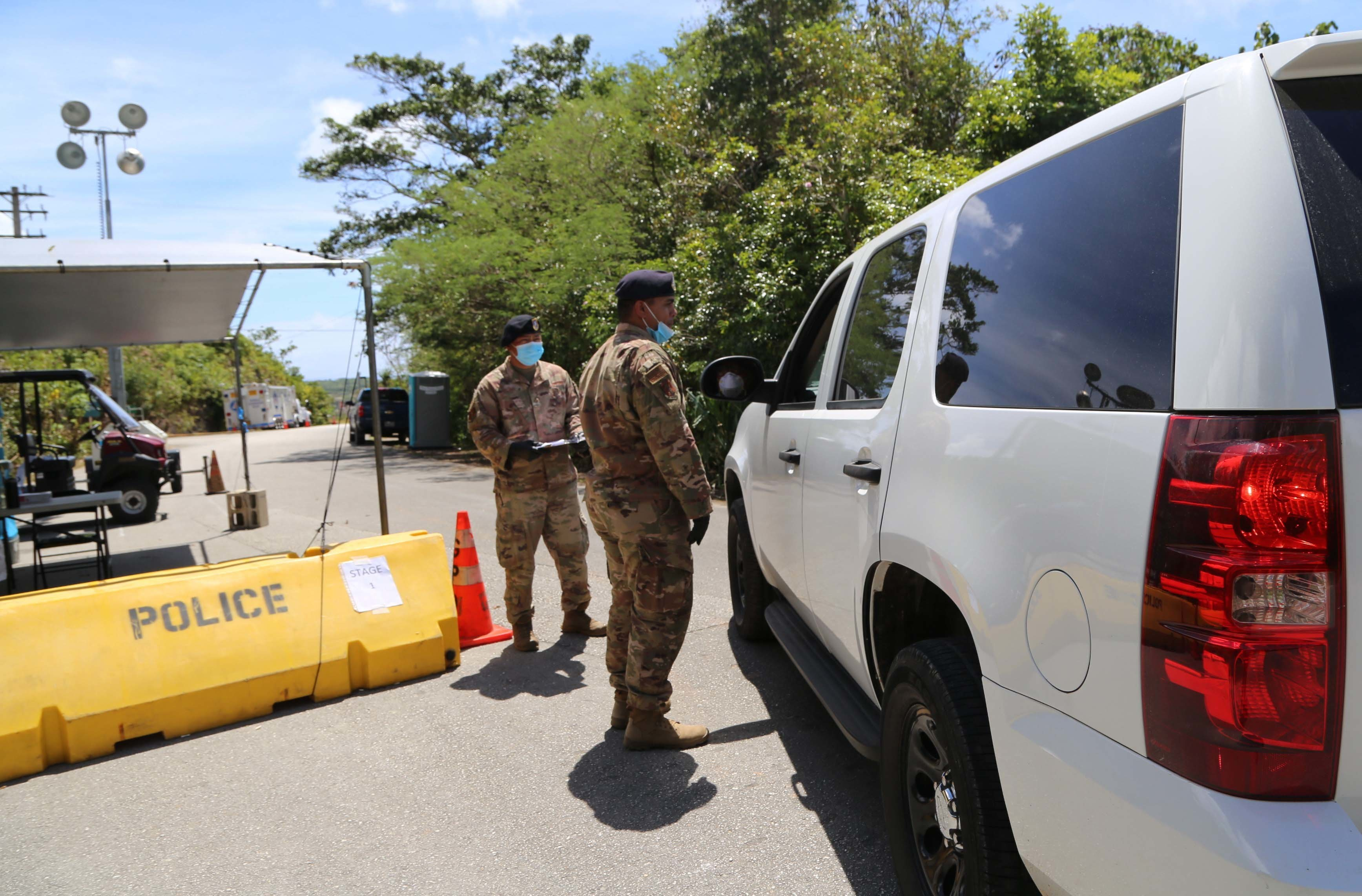 Senior Airman Keith Orlino, left, and Tech. Sgt. Shawn Morrison, Guam Air National Guard, provide security support to the Guam Police Department at a COVID-19 isolation facility in Barrigada, Guam March 23. By the direction of Guam Gov. Lou Leon Guerrero, the GUNG was activated March 21 to assist the local government’s COVID-19 response efforts. (U.S. Army National Guard photo by JoAnna Delfin)